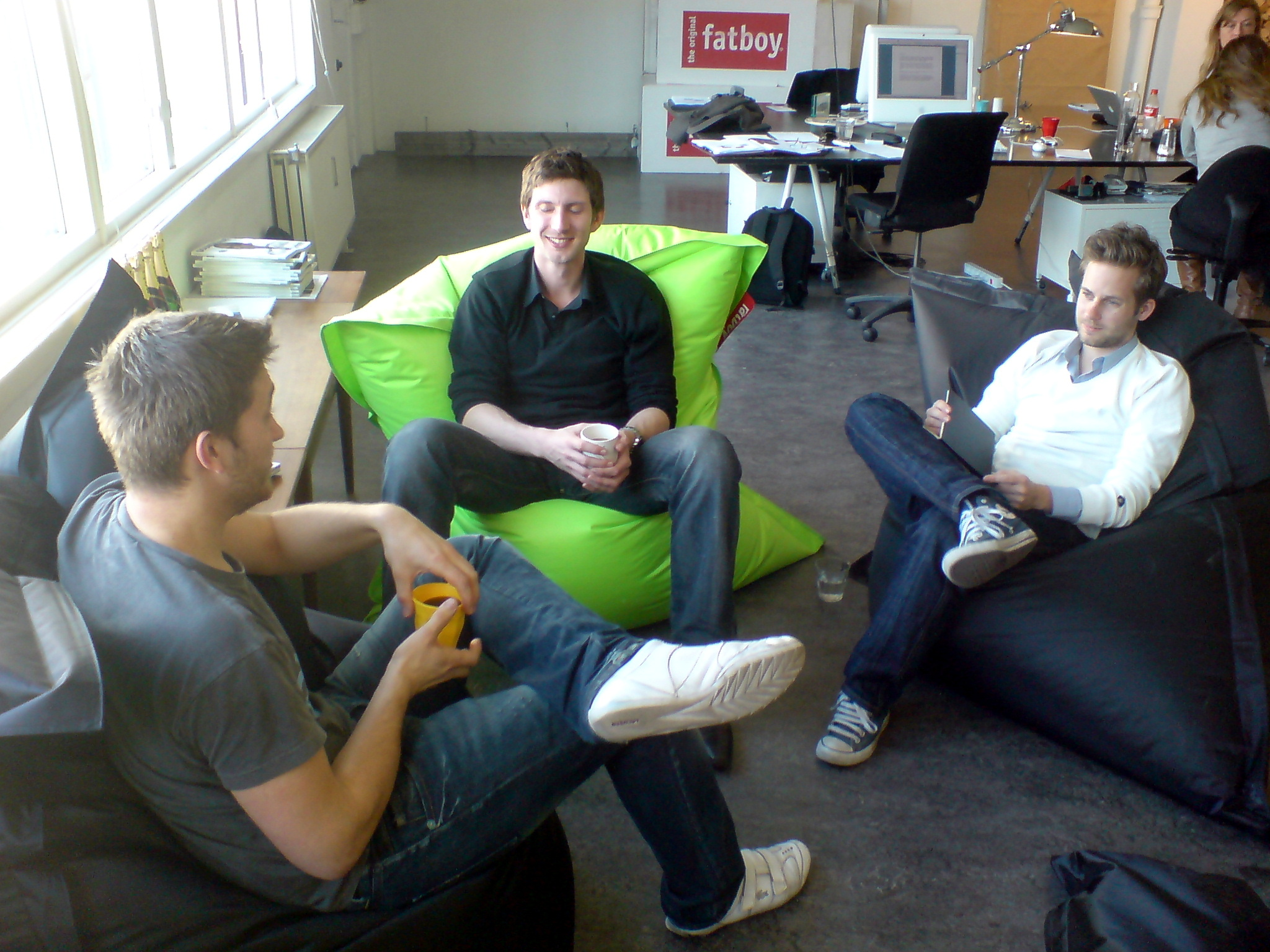 Meeting at which all participants sit on fatboy Bean bags.